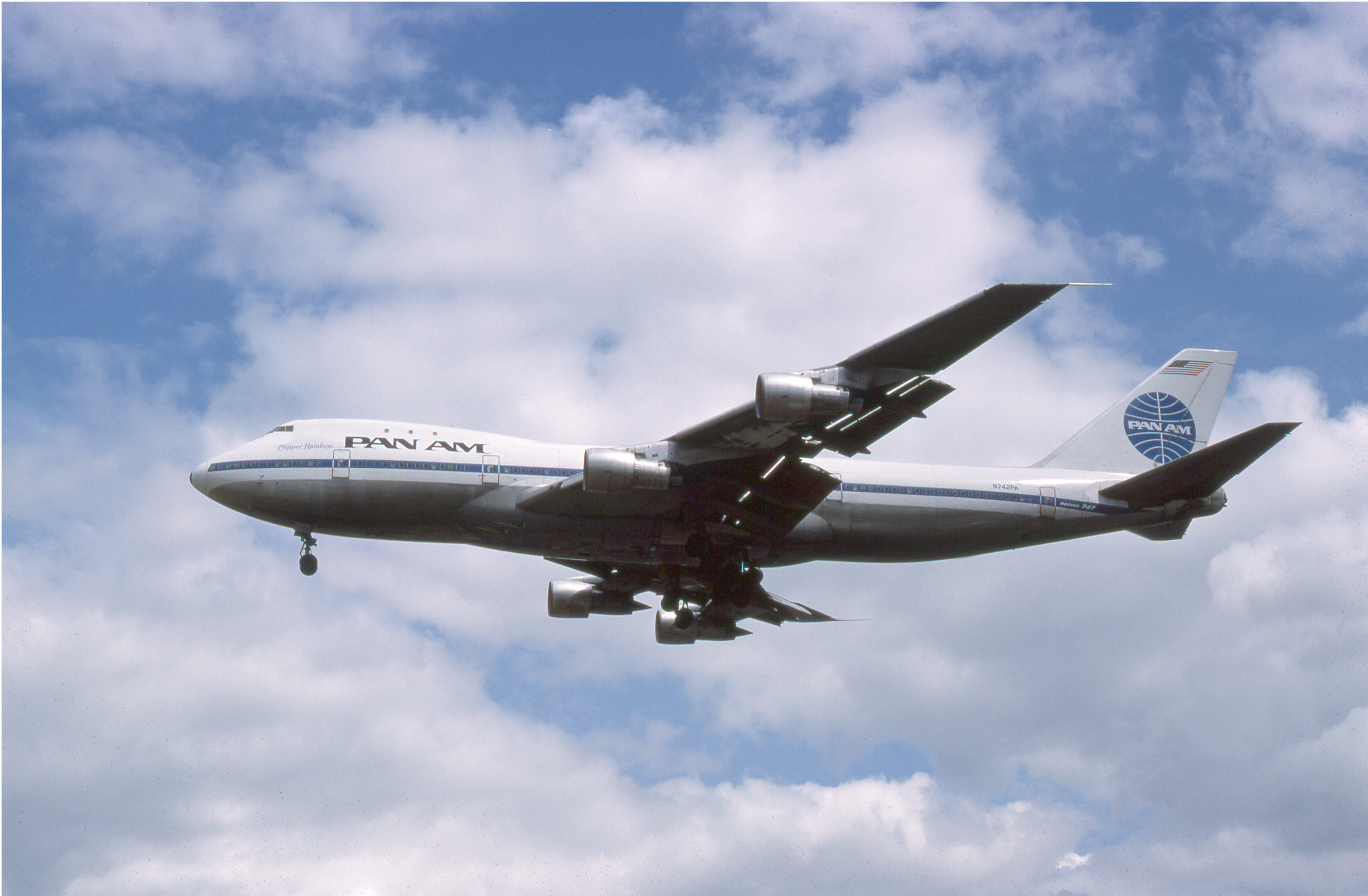 1977 Heathrow